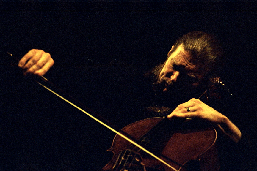 Svante Henryson performing in Bangalore, India in 2004